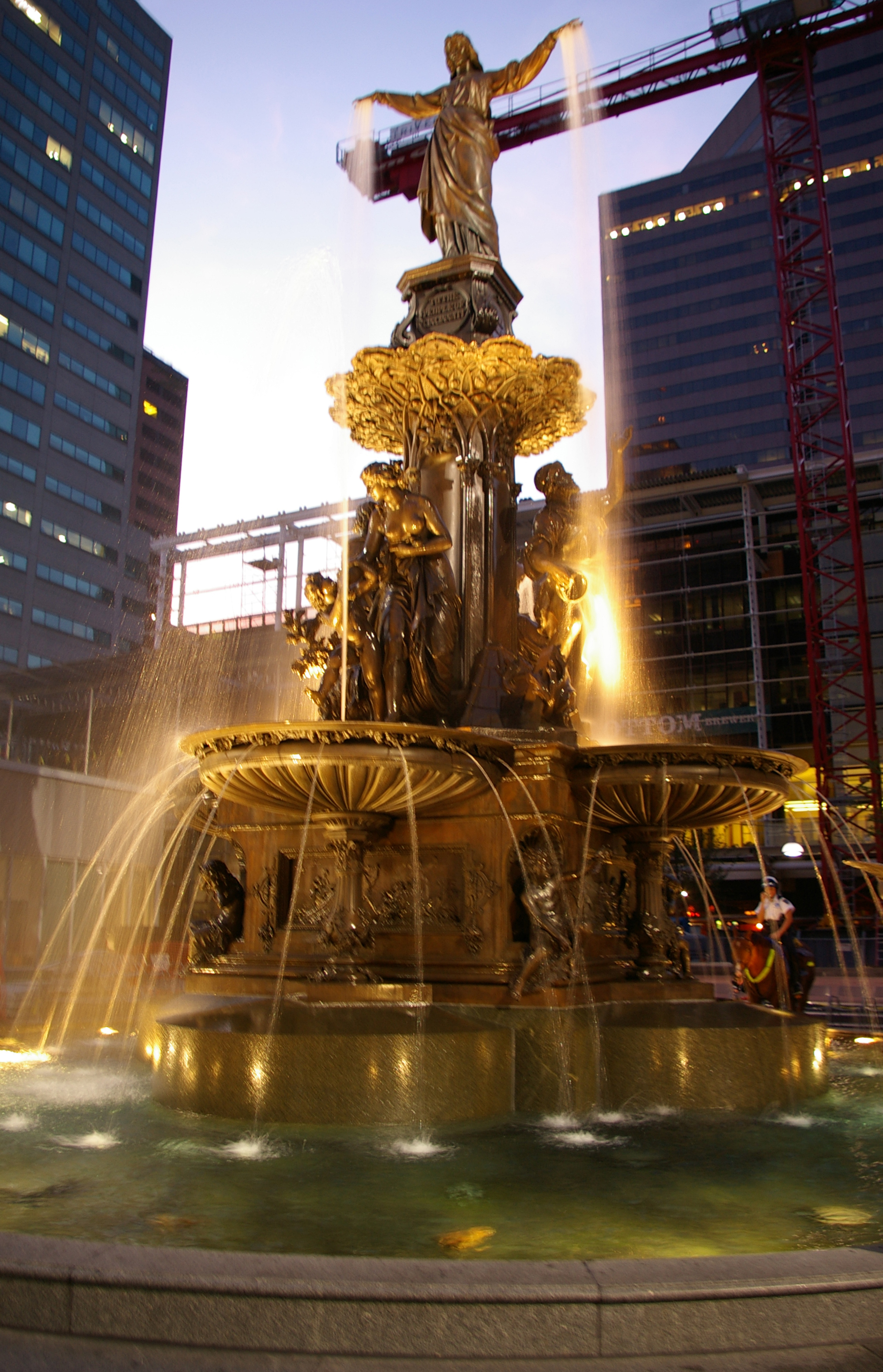 I took this photo of the Tyler Davidson Fountain in Fountain Square, Cincinnati on Friday, June 8, 2007 with a Pentax K100D Digital SLR camera.